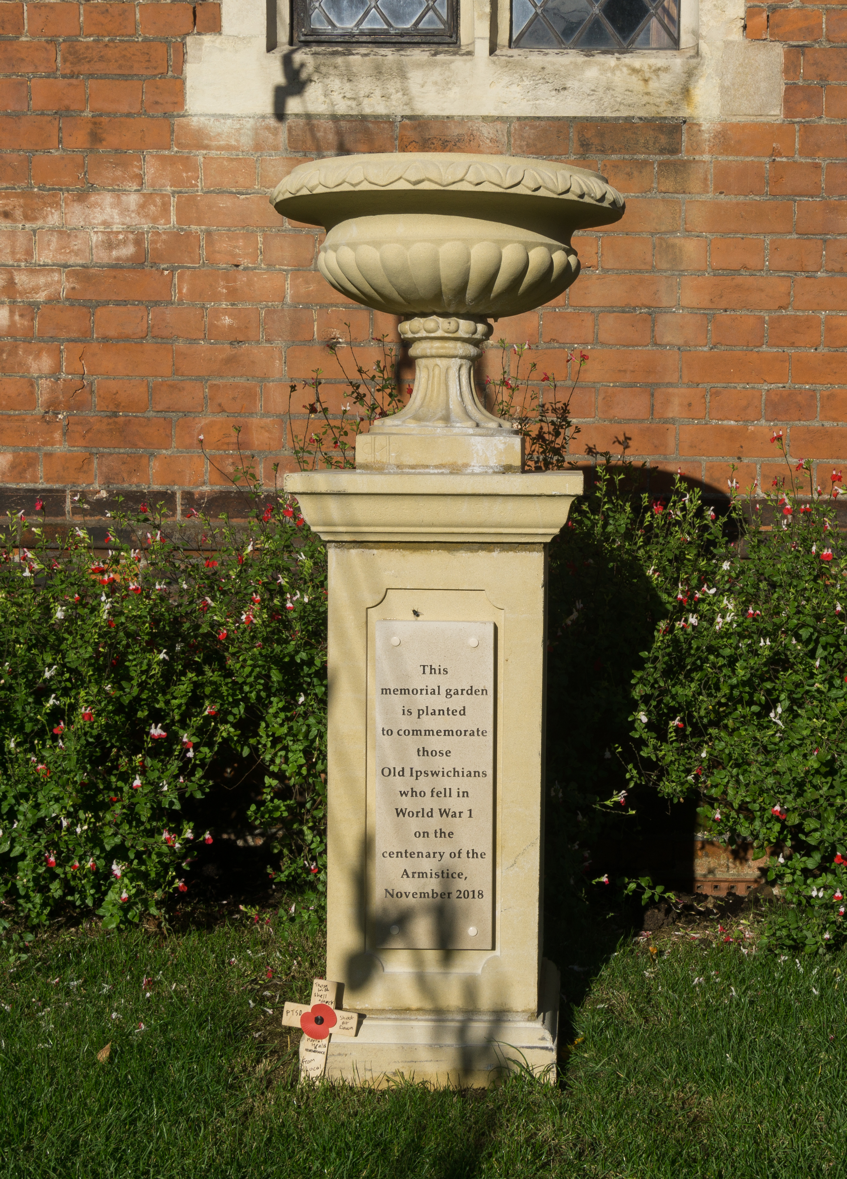 Ipswich School memorial garden to commemorate those who fell in World War I on the centenary of the Armistice, November 2018